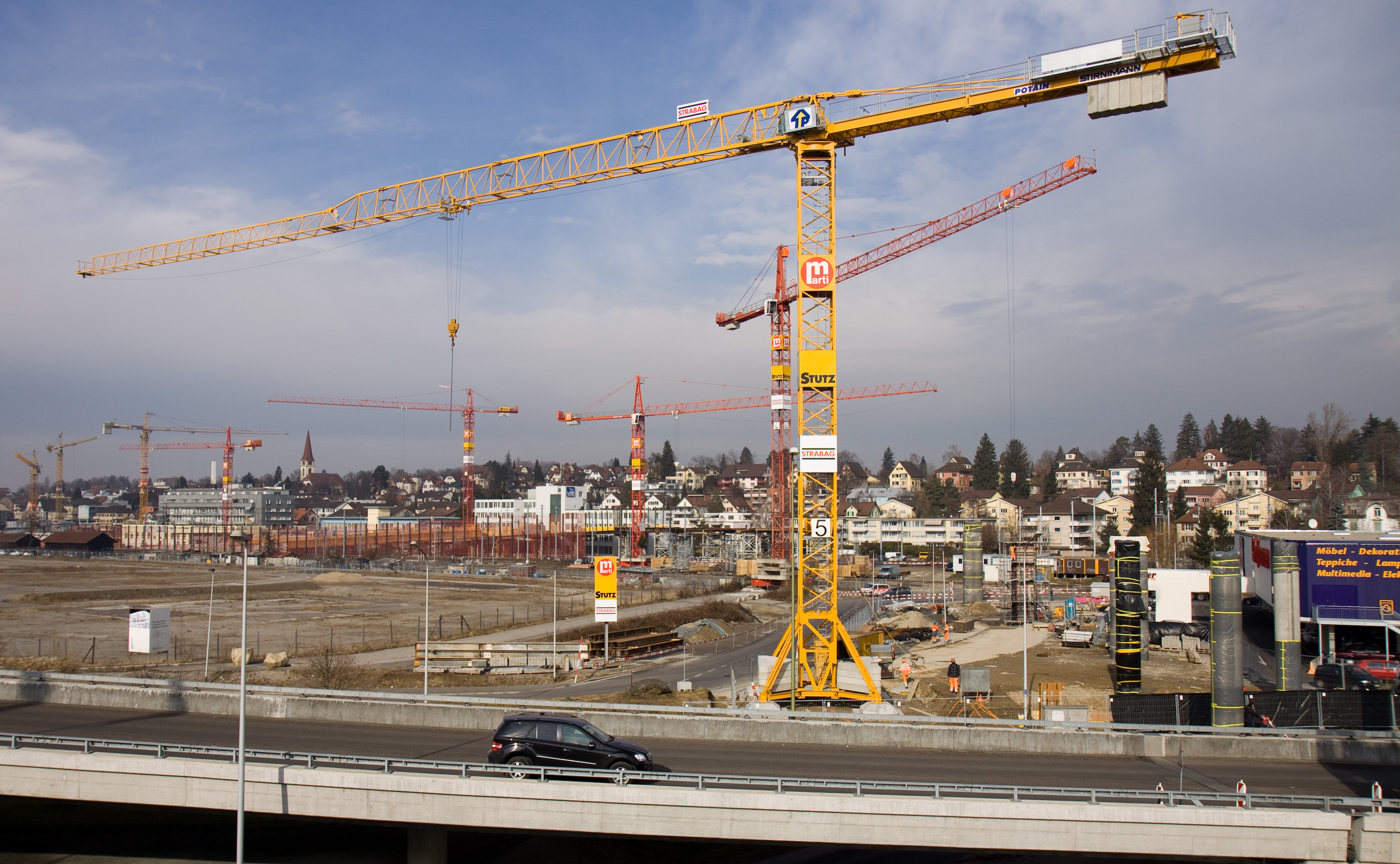 Construction site of the third stage of the Glattal light railway between Wallisellen SBB (left, in the background) to the "Glattzentrum" shopping centre (position of the photographer). The new line rises from ground level (ramp in the background), crosses the SBB line and continues to the Glattzentrum on a bridge. The pillars of this bridge are visible on the right.